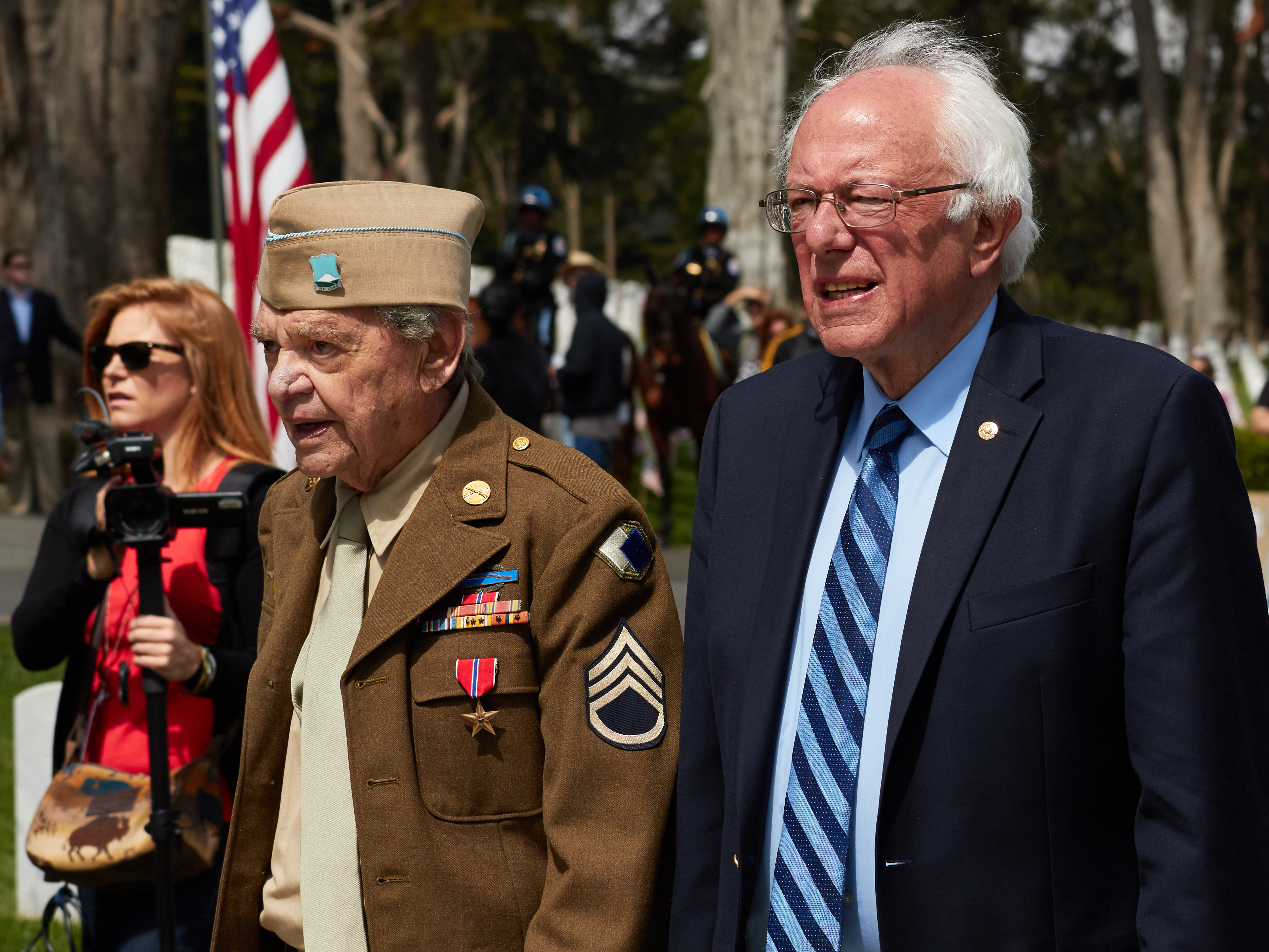 Bernie Sanders at the 2016 Memorial Day Ceremony, Presidio of San Francisco, California, United States